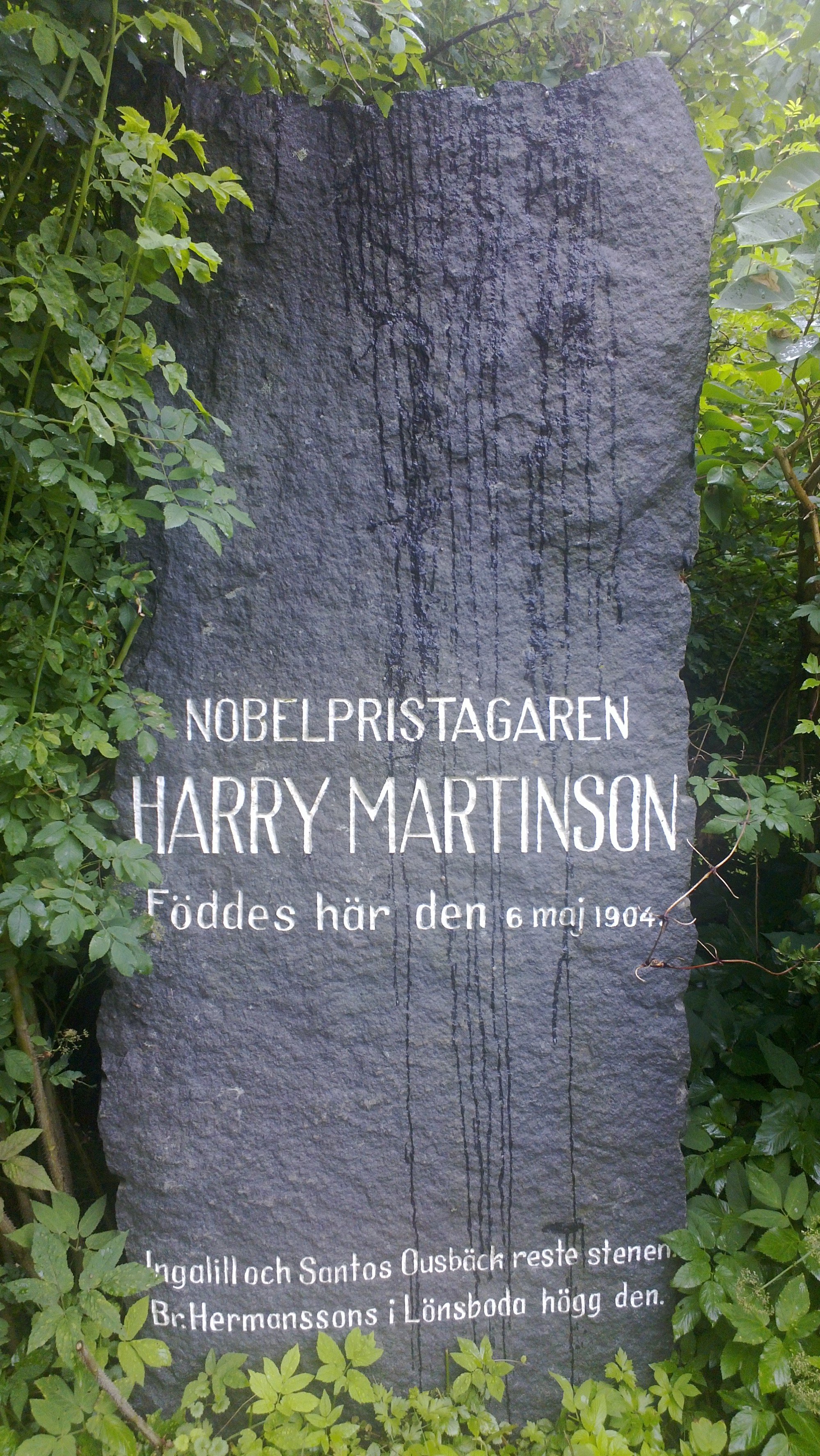 Stone monument on the birth place of Harry Martinson in Nyteboda, Sweden. Text (in Swedish) on the stone translated into